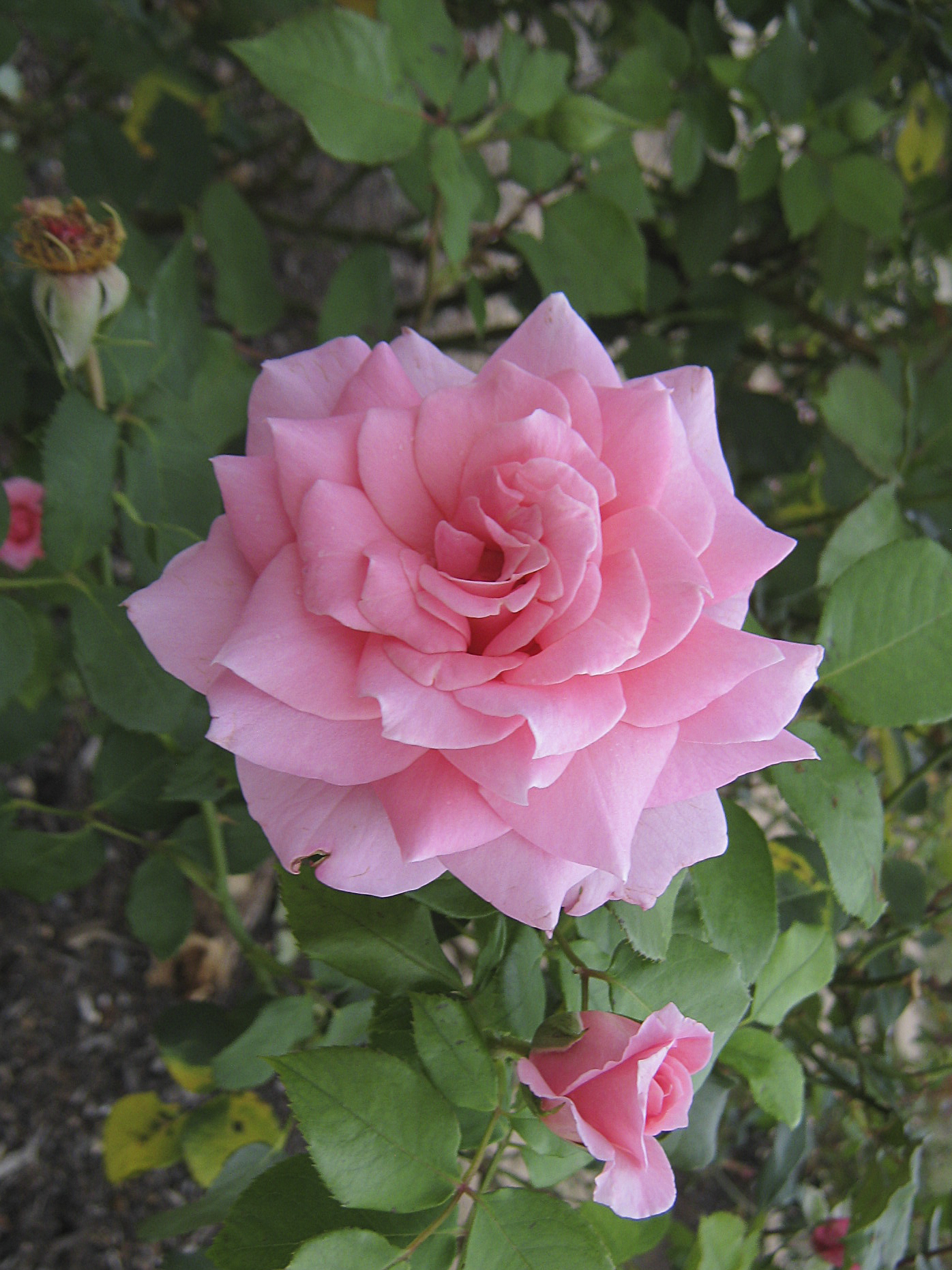 Rose 'Picture', Hybrid Tea bred by McGredy 1932; Photographed in the Nieuwesteeg Heritage Rose Garden, Maddingley Park, Bacchus Marsh, Victoria